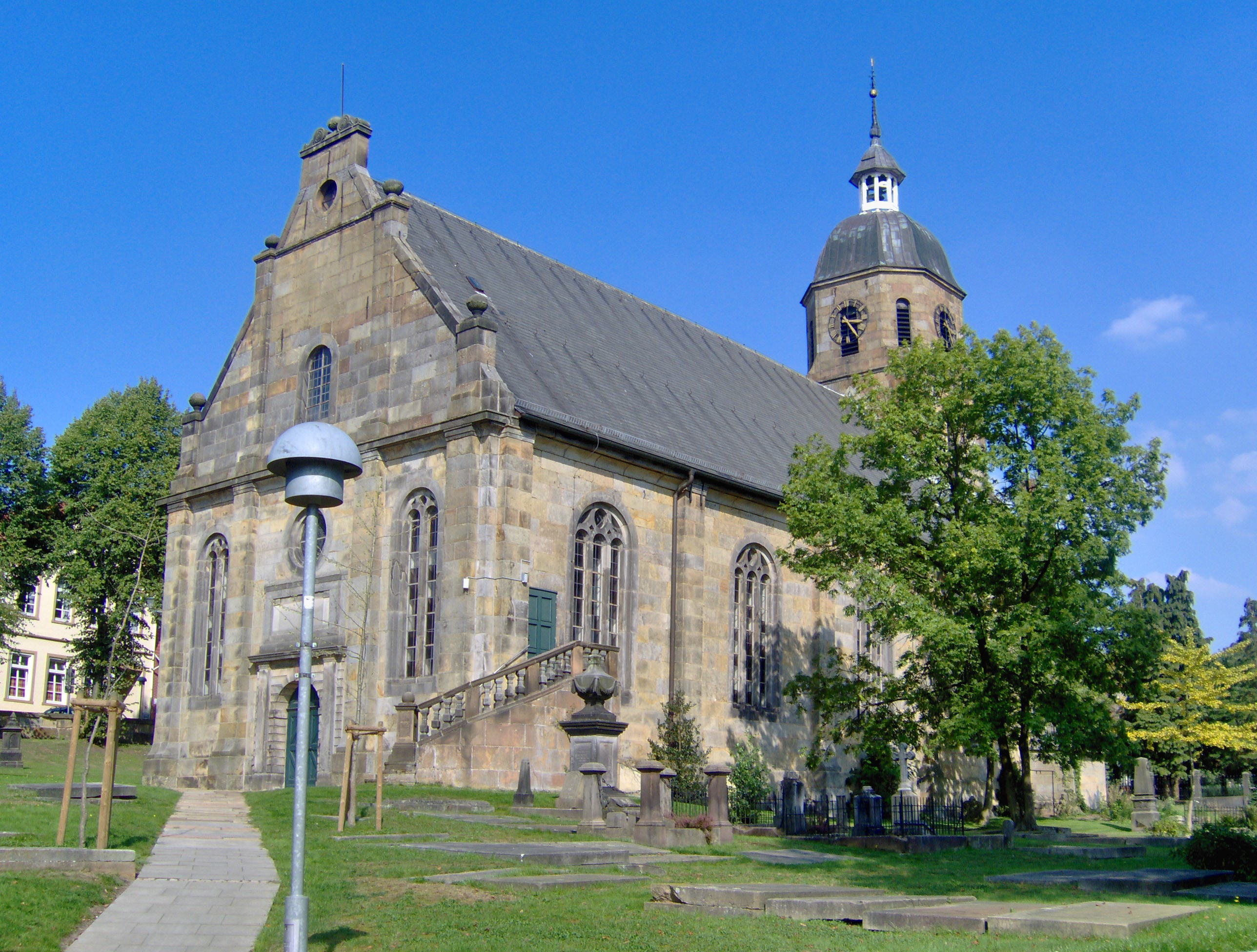 The Reformed church, the Evangelisch-Reformierte Kirche, of Bad Bentheim in Lower Saxony, Germany